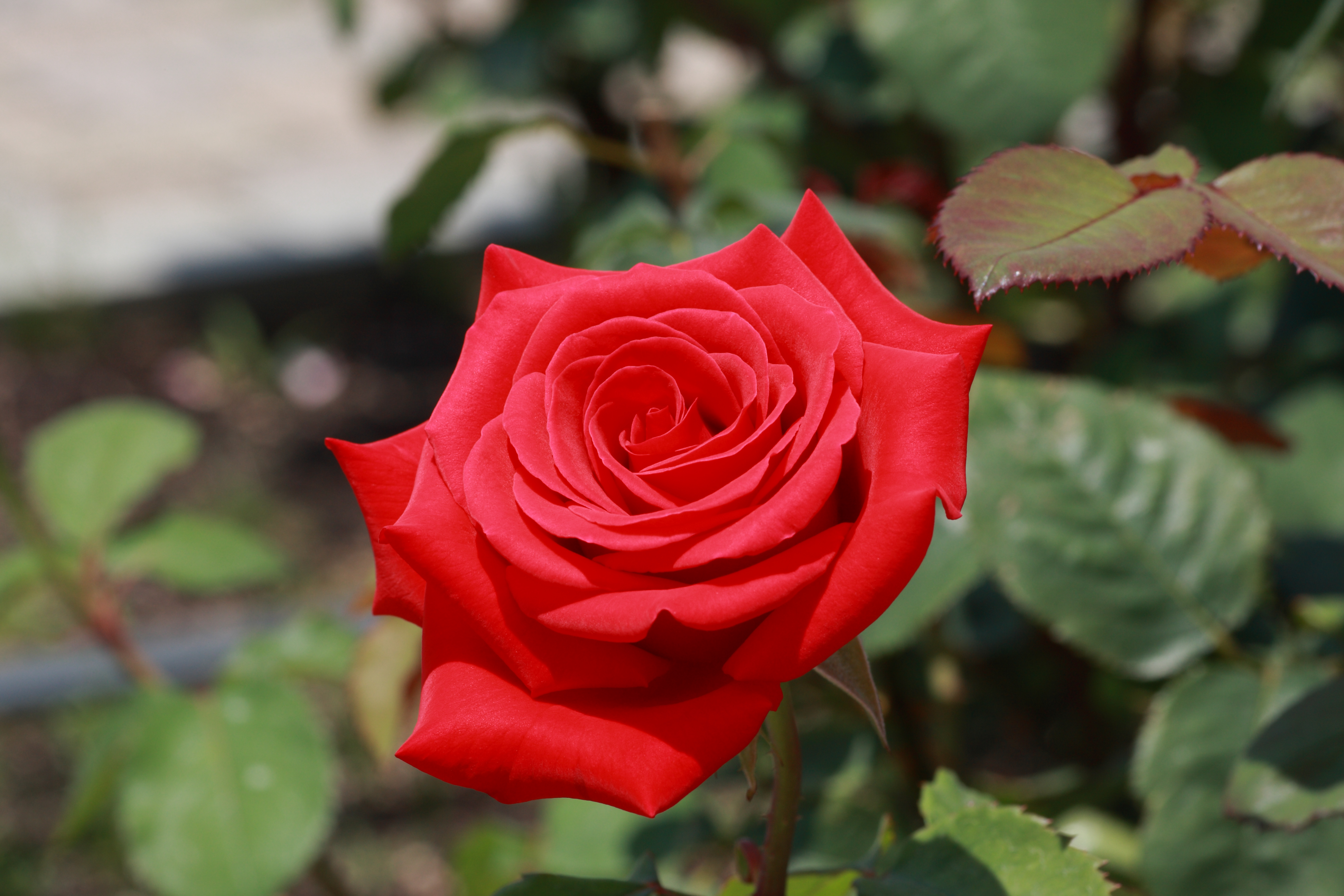 Kardinal - Hybrid Tea, Raised by R.Kordes, Germany. 1986(reg.)